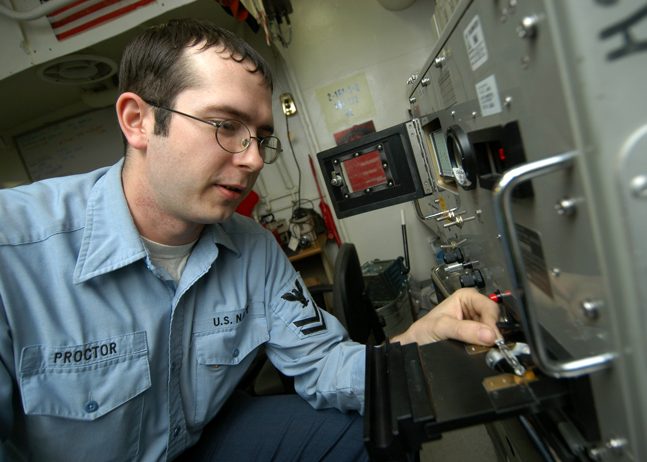 Arabian Gulf (Jan. 1, 2004) -- Machinist's Mate 2nd Class Stan Proctor from Crofton, Md., inserts the calcium-fluoride crystal from a Thermal-Luminescent Dosimeter (TLD) into a TLD reader to record radiation exposure levels. TLDs are carried by approximately 1,200 Engineering and Reactor Department personnel aboard the nuclear-powered aircraft carrier USS Enterprise (CVN 65), and measure exposure to radiation and the level of exposure of each TLD. Each TLD must be recorded monthly by the Reactor Laboratories division. The Enterprise Carrier Strike Group (CSG) is currently deployed conducting missions in support of Operation Iraqi Freedom and the continued war on terrorism. U.S. Navy photo by Photographer's Mate Airman Milosz Reterski. (RELEASED)